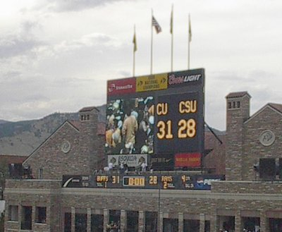 The final score between CU and CSU in 2005